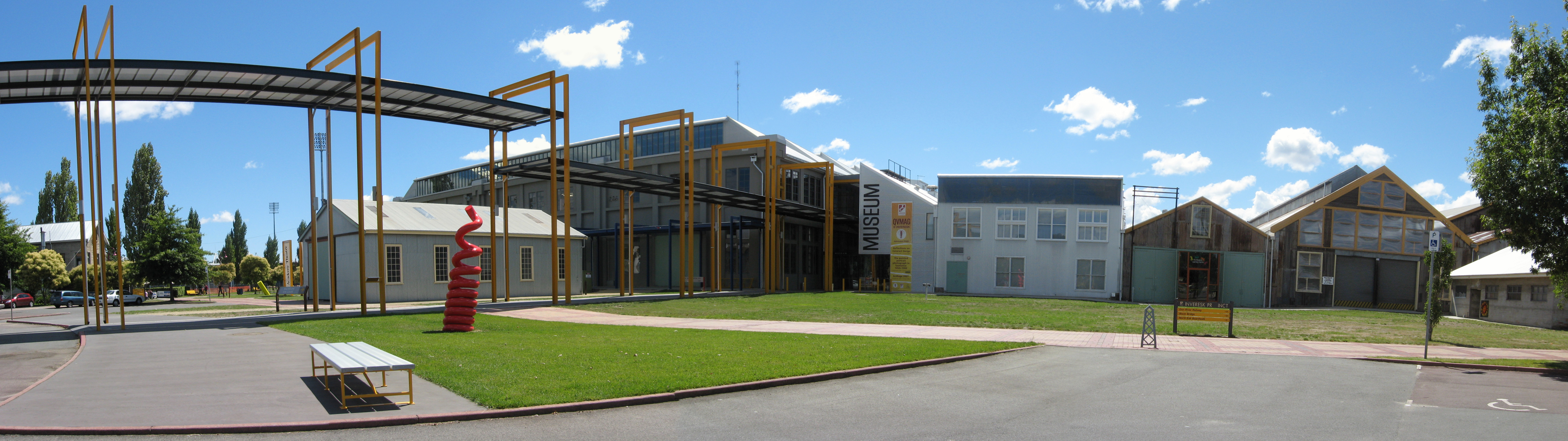 Queen Victoria Museum and Art Gallery - Inversek